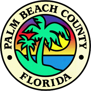 Seal of Palm Beach County, Florida.